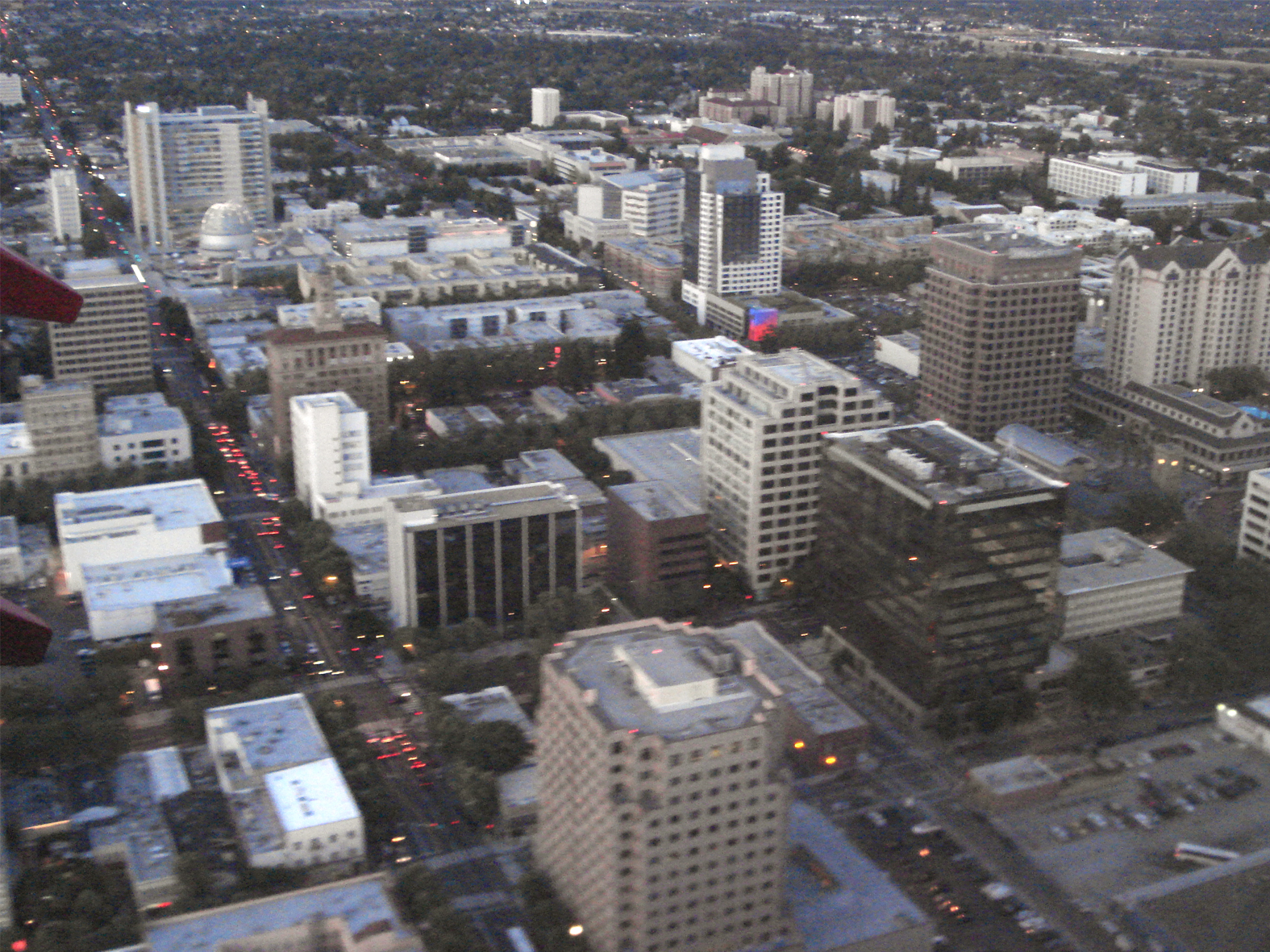 The approach to San Jose International Airport Runway 30L